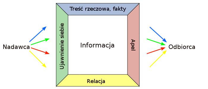 Four sides model of communication according to Friedemann Schulz von Thun.